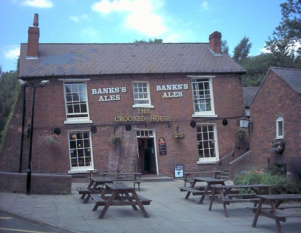 Crooked House, Himley. Unusual pub, You don't need a beer to feel drunk.